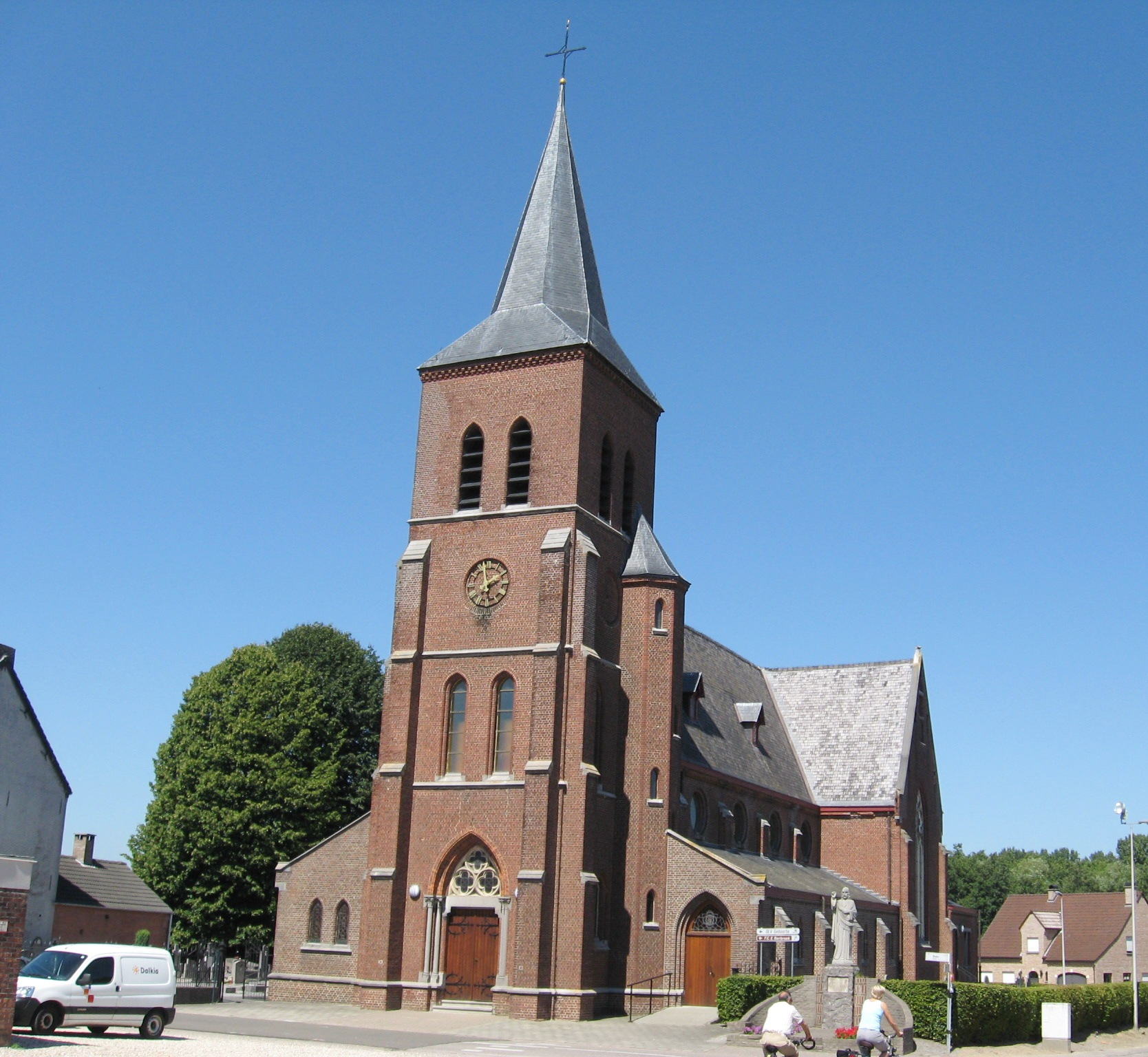 Church of Our Lady's Birth in Berbroek, Herk-de-Stad, Limburg, Belgium